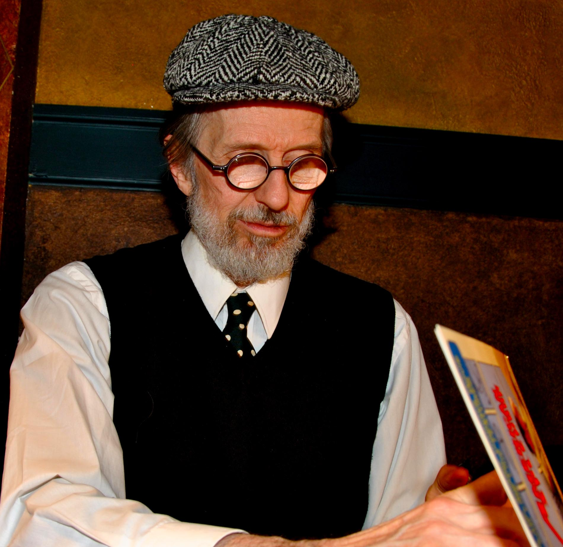 On saturday 10/9/2010 R. Crumb came to chestertown to visit his sister and do a talk on his illustrations. R. Crumb is the best cartoonist out there in my point of view.